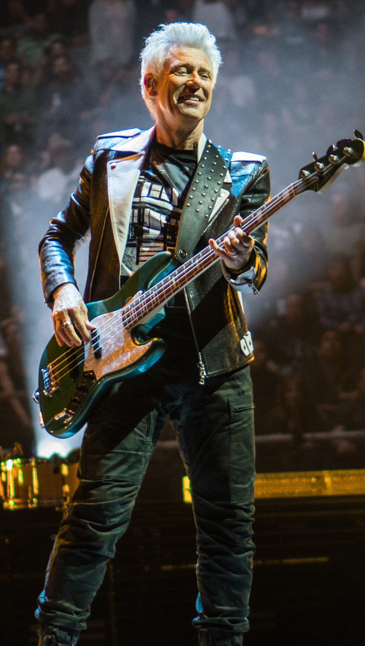 U2 bassist Adam Clayton performing at SAP Center in San Jose, California on May 8, 2018 during the band's Experience + Innocence Tour